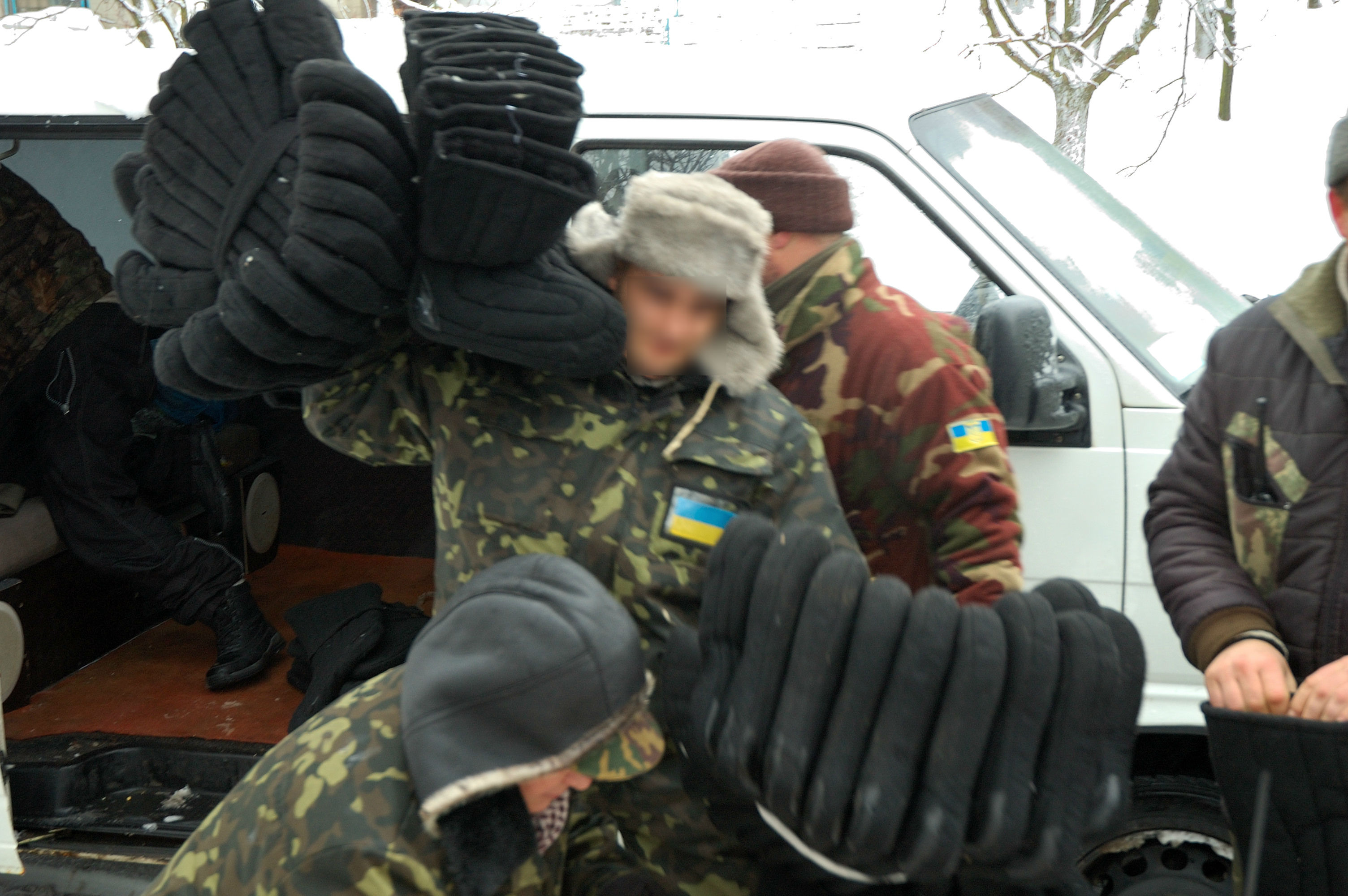 Valenki for the 40th battalion.